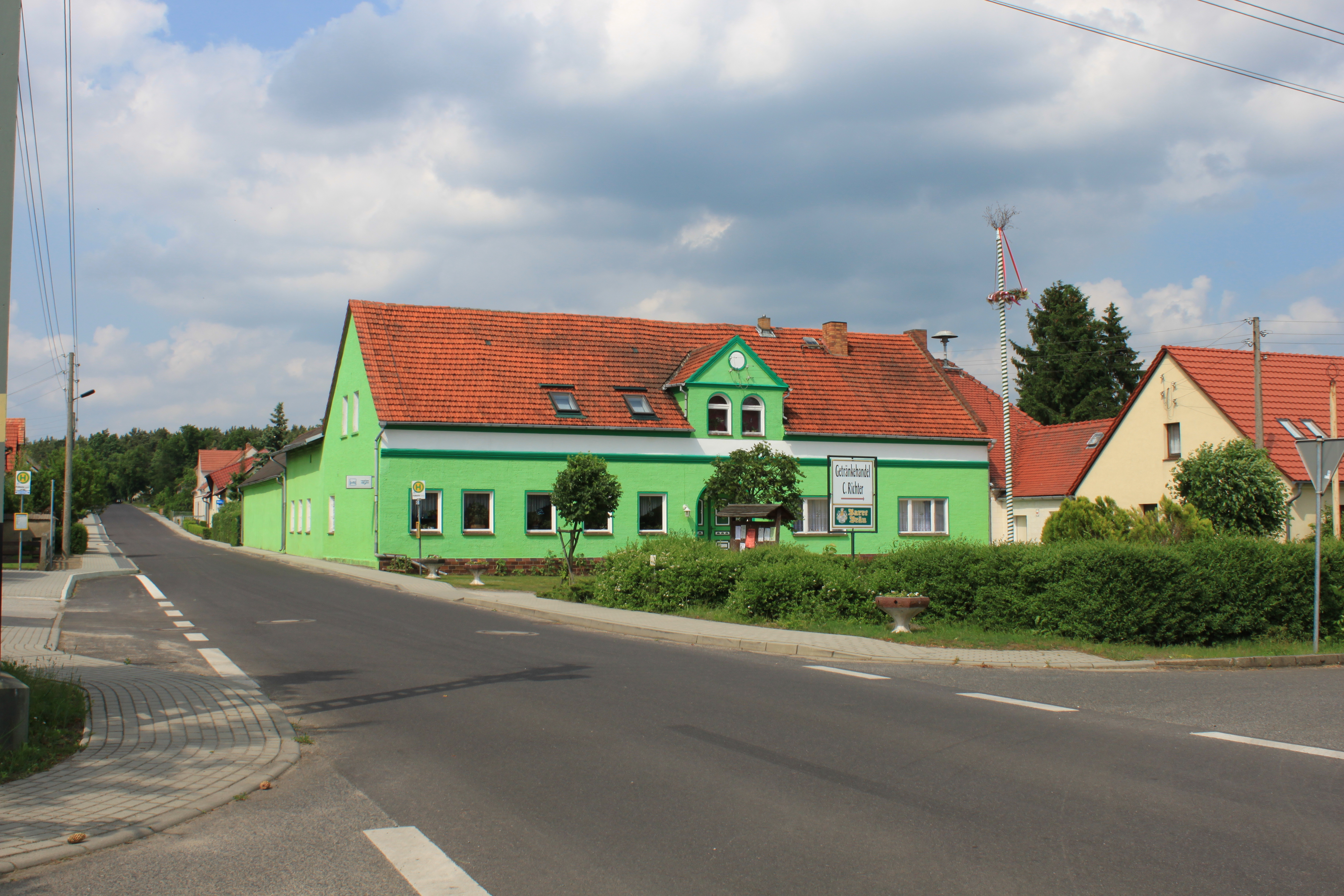 Restaurant in Proßmarke